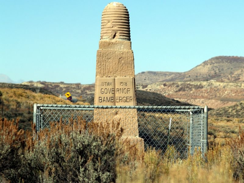 A marker for Utah Governor Simon Bamberger on Highway 191, north of Helper, Utah, 2007.